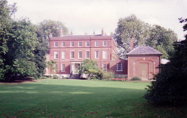 Bushy House, Bushy Park This house, now part of the NPL campus, was started in 1663 and was for a time the home of the Duke of Clarence and Princess Adelaide. For a fuller history try the link.